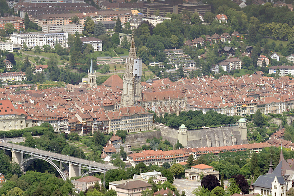 aerial view of Münster Cathedral, Berne, Switzerland (higher resolution available)